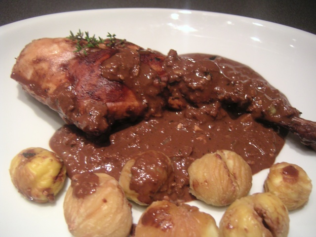 In Catalonian gastronomy the fat most used to bind sauces is not beurre but chocolate, being chocolate as typical and particular as "picada" in sauces and dishes where meat, and sometimes fish, is cooked in sauce. Chocolate is added in typical recipes of "mar i muntanya" as chicken with lobster or rabbit with prawns, and also in civets or in chicken or turkey, for example, cooked in sauce with dried food (apricot, prune, raisin) and pine nuts. As an example, i the photo you can see a dish called "conill amb xocolata" or "conill a la xocolata" (rabbit with chocolate sauce), accompanied with chestnuts.